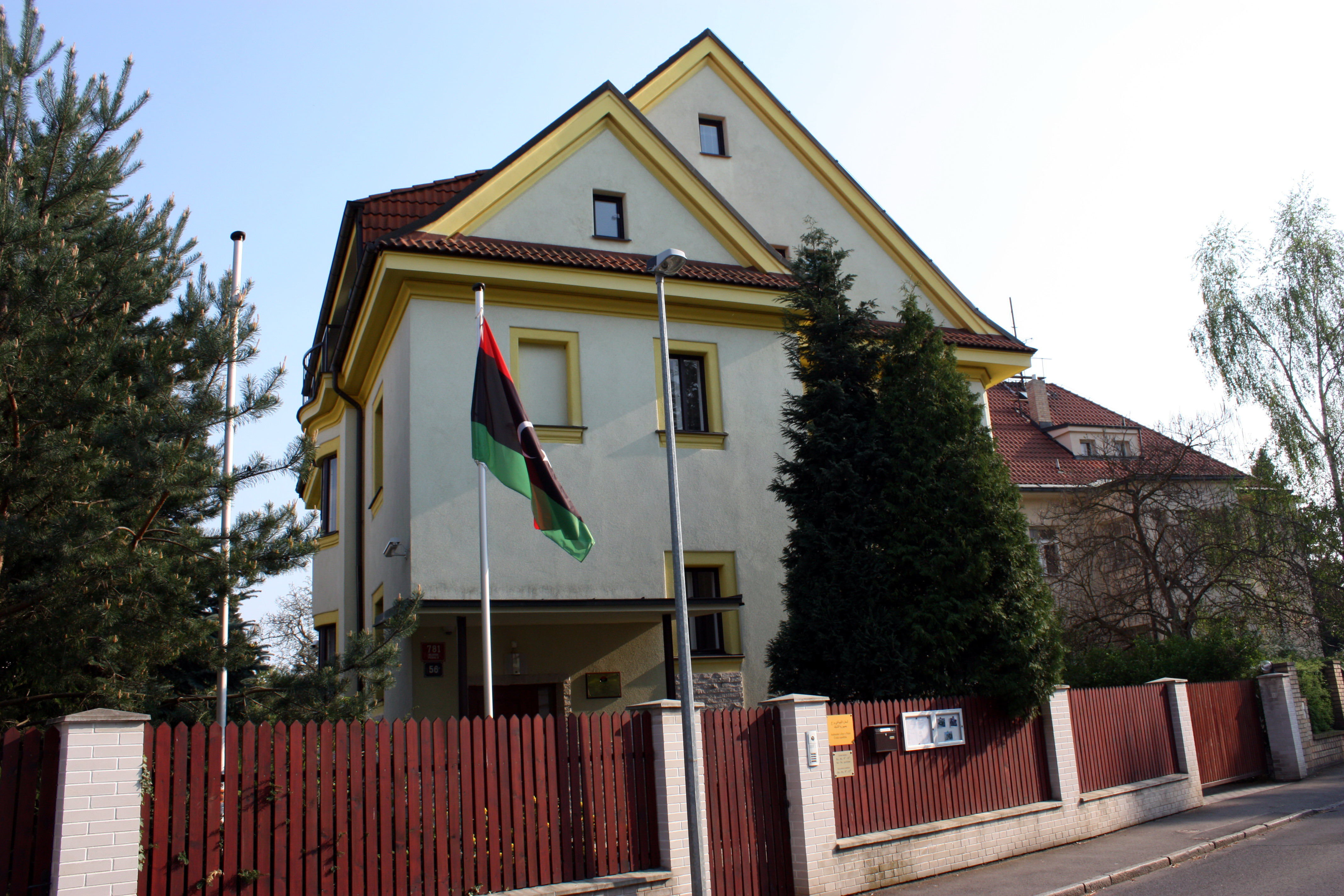 Libyan Embassy in Prague, Nad Šárkou 781/56, Praha 6 – Dejvice.